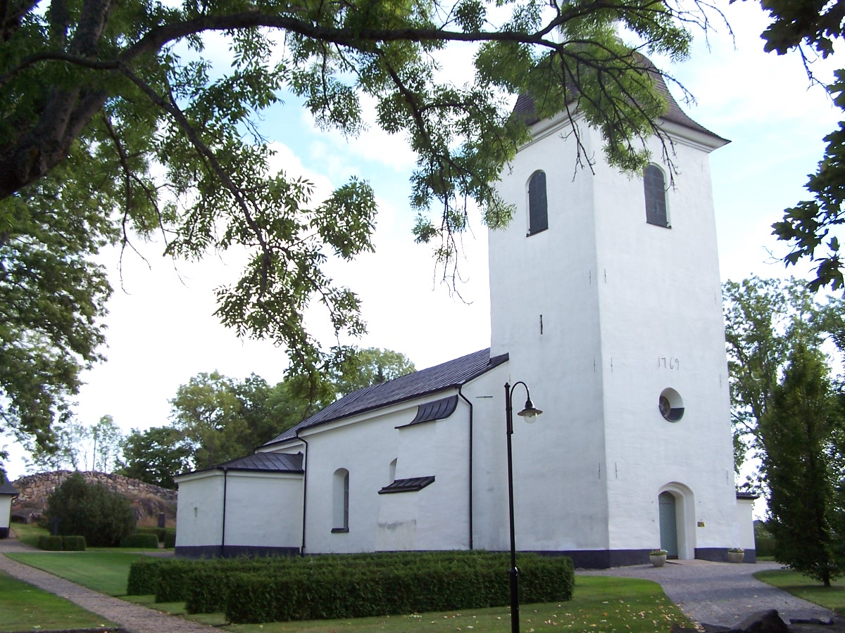 Tingstad church, Sweden